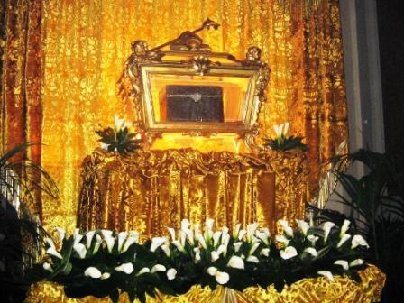 Urn with relics of Saint Paulinus of Nola, at the Duomo di Nola